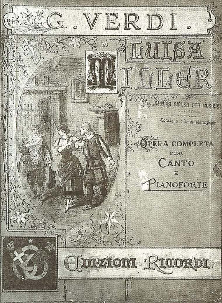 Cover of a score for voice and piano of Giuseppe Verdi's 1849 opera Luisa Miller